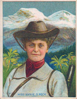 Hassan Cigatette Trading card showing Annie Smith Peck